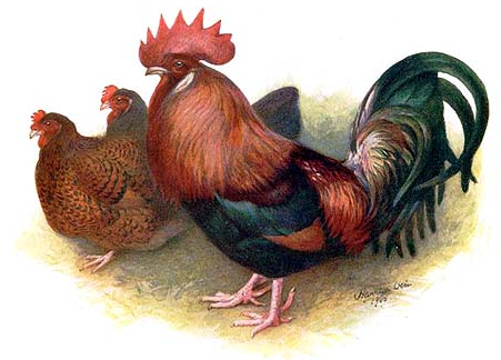 (Removed after reusableart request.)